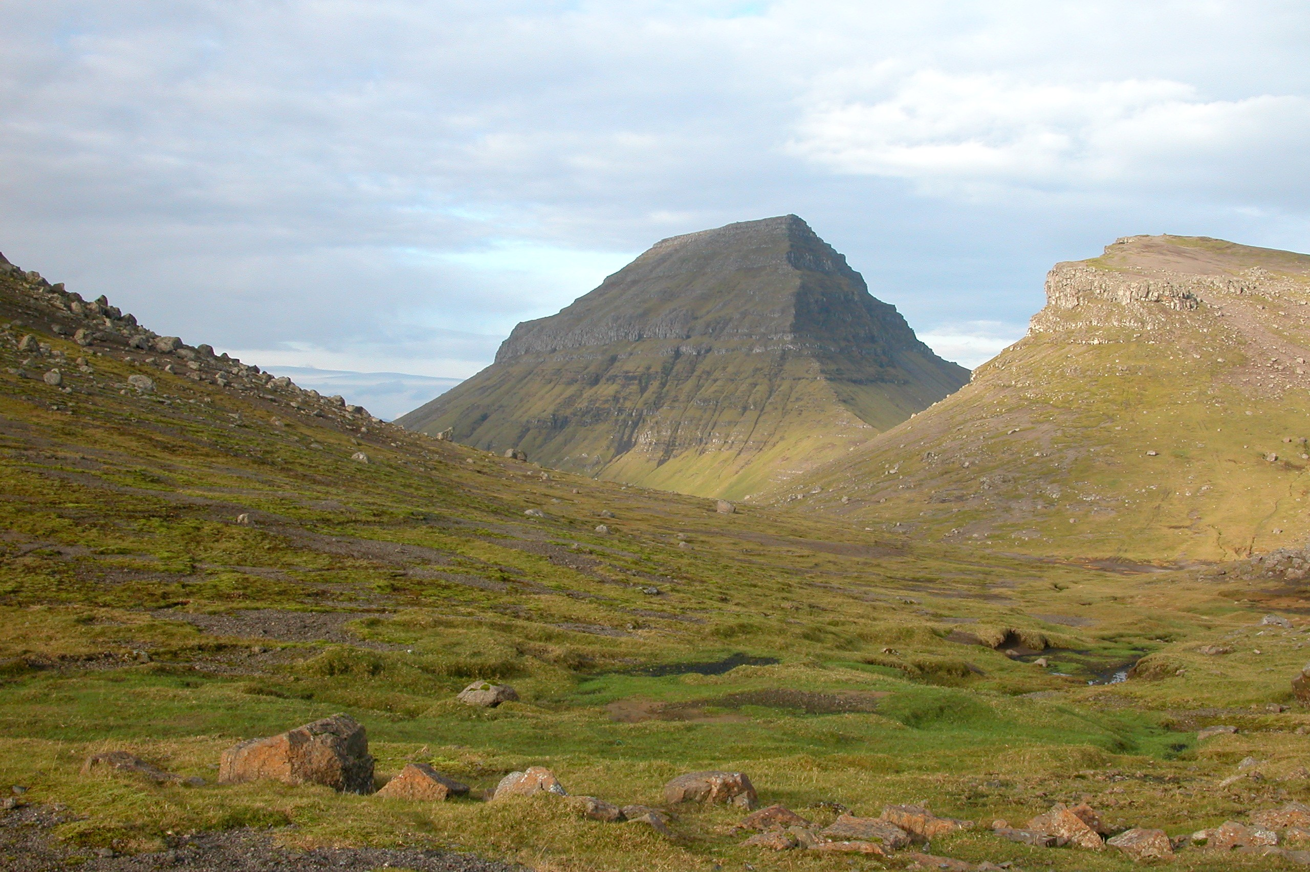 Skælingsfjall 767 m., Streymoy, Faroe islands